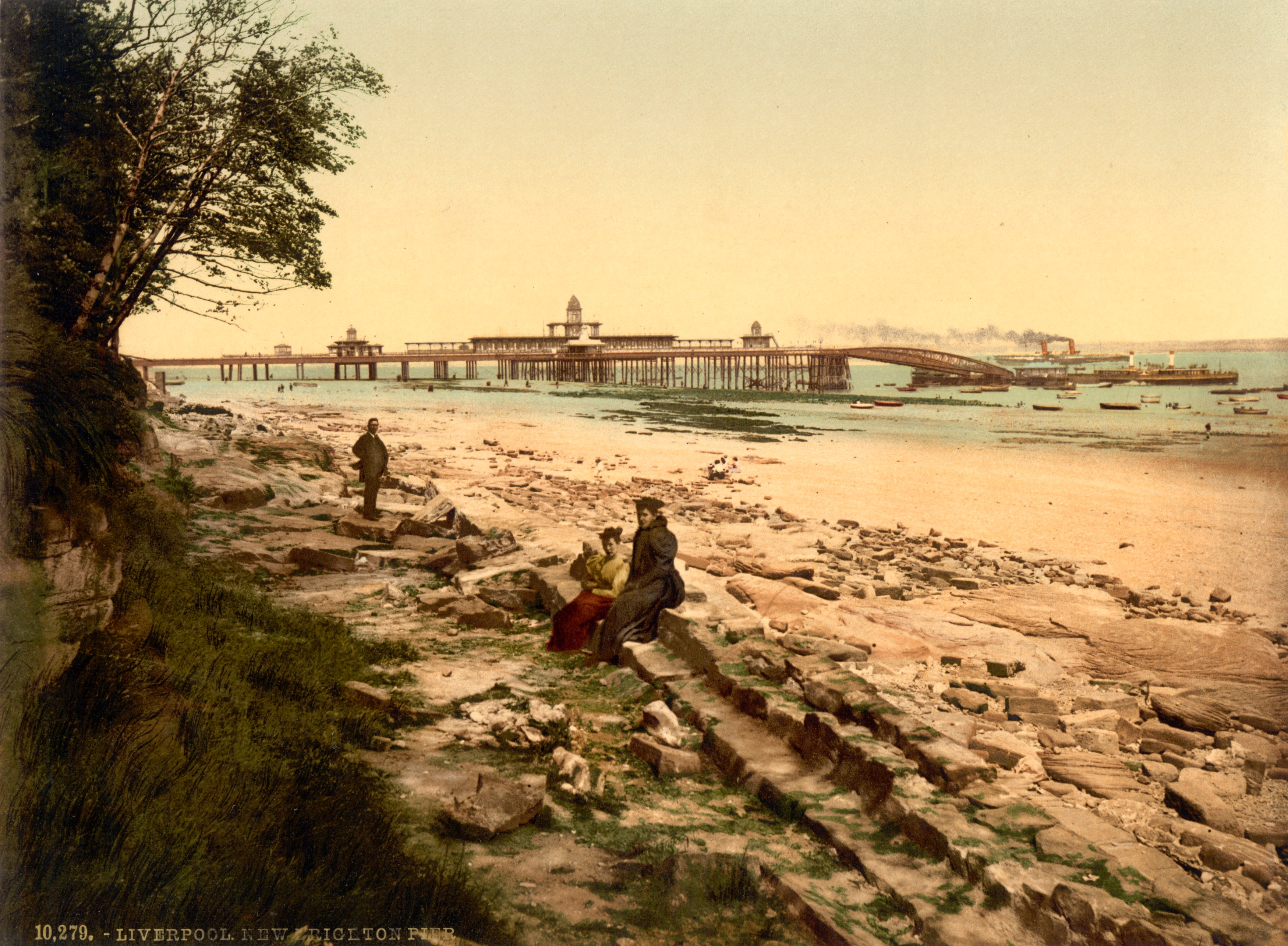 Forms part of: Views of the British Isles, in the Photochrom print collection.; More information about the Photochrom Print Collection is available at Print no. "10279".; Title from the Detroit Publishing Co., Catalogue J-foreign section, Detroit, Mich. : Detroit Publishing Company, 1905.